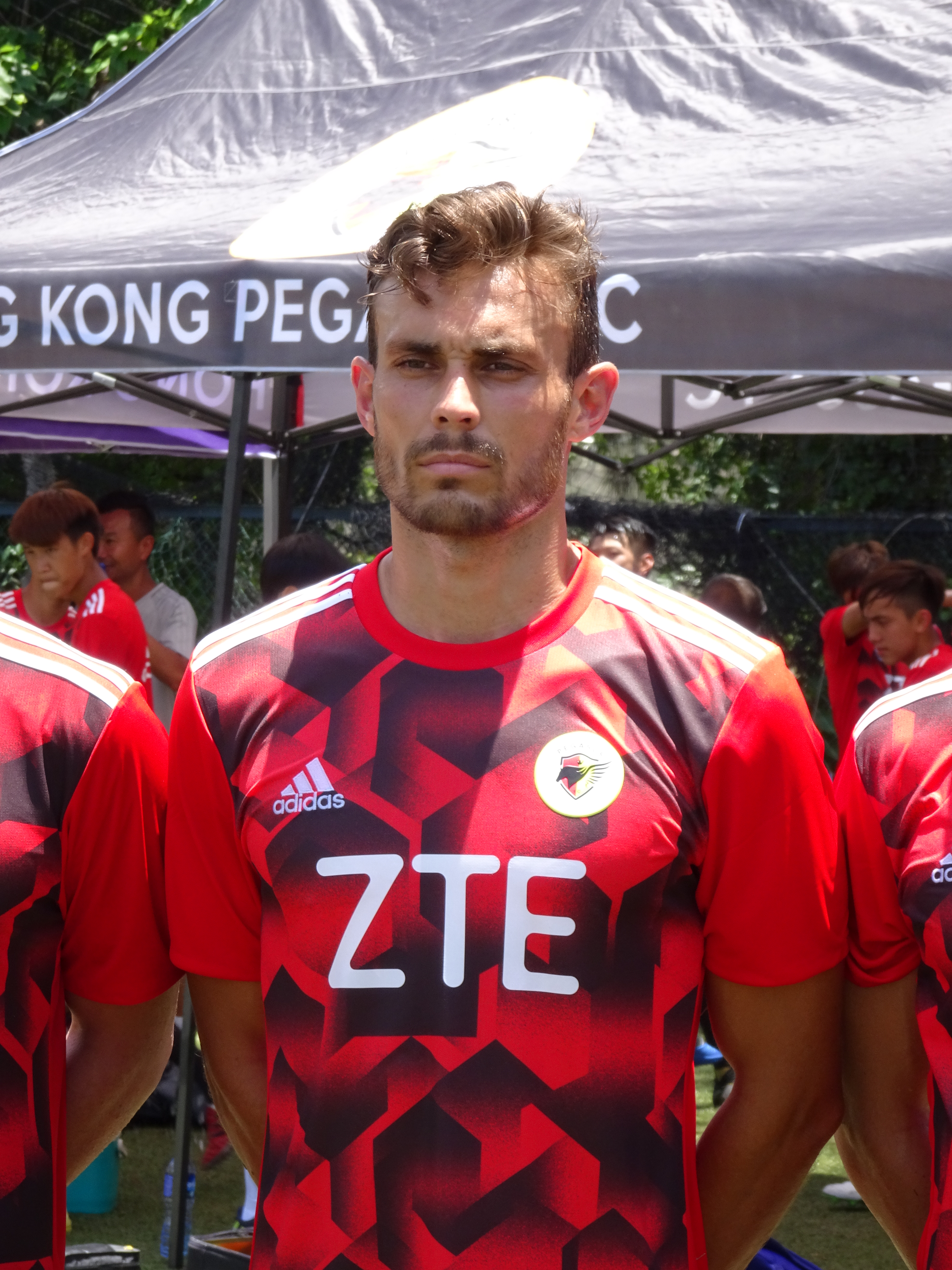 Alfonso Artabe Meca (28 July 2017, Pegasus training, King’s Park Sports Ground) 中文（香港）: 迪比 (28 July 2017, 飛馬操練, 京士柏運動場)